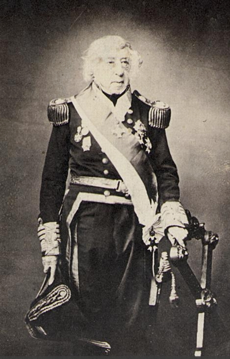 10th Earl of Dundonald, Thomas Cochrane